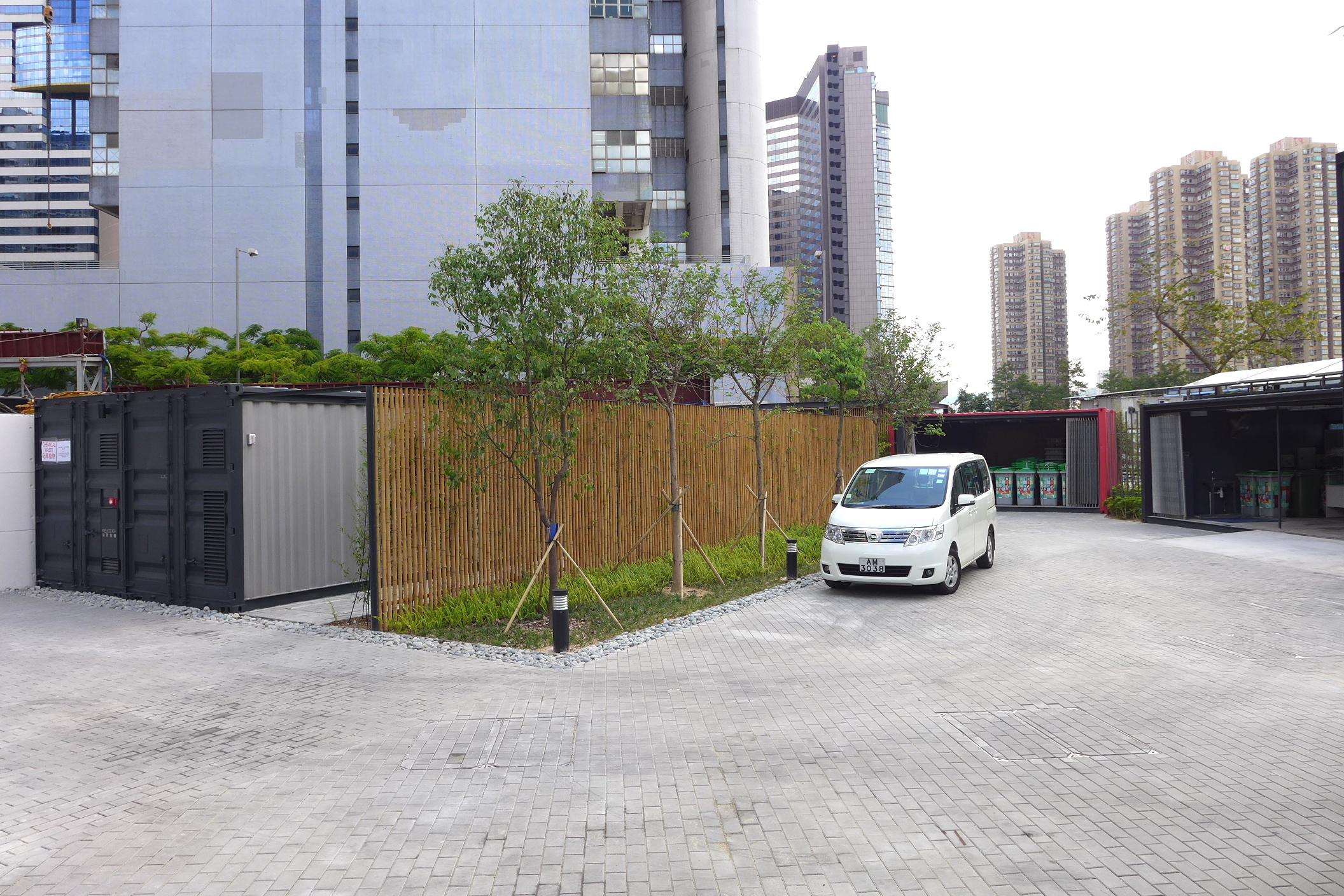 Sha Tin Community Green Station